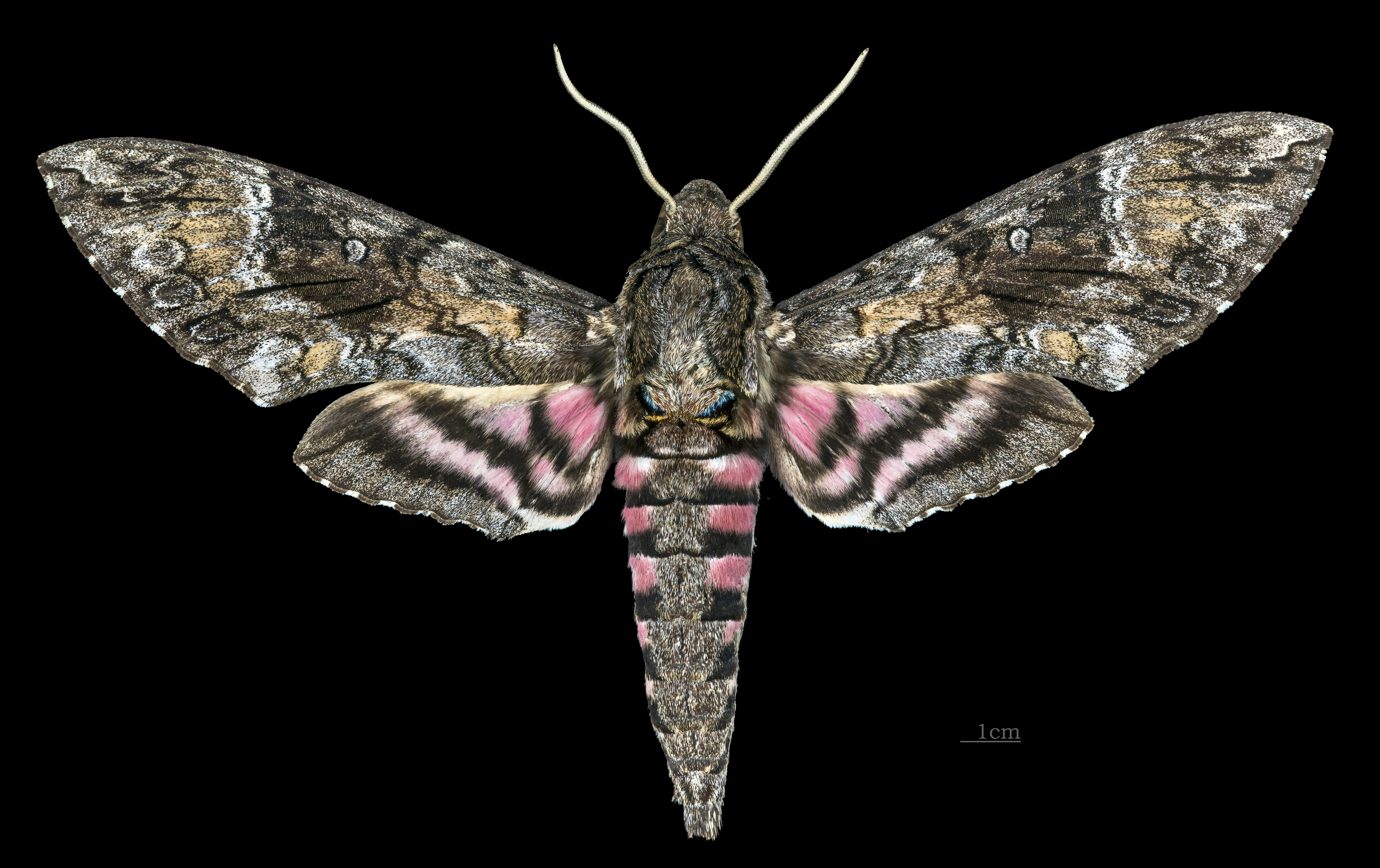 Pink-spotted Hawkmoth - Dorsal side Collection of the Mathematician Laurent Schwartz